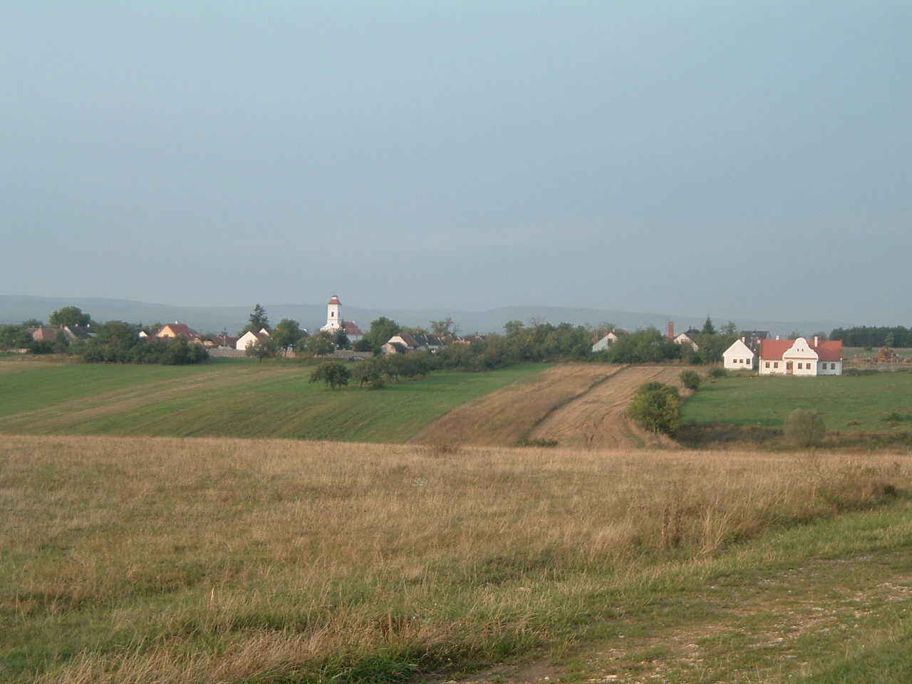 Nemesleányfalu, Nagyvázsony